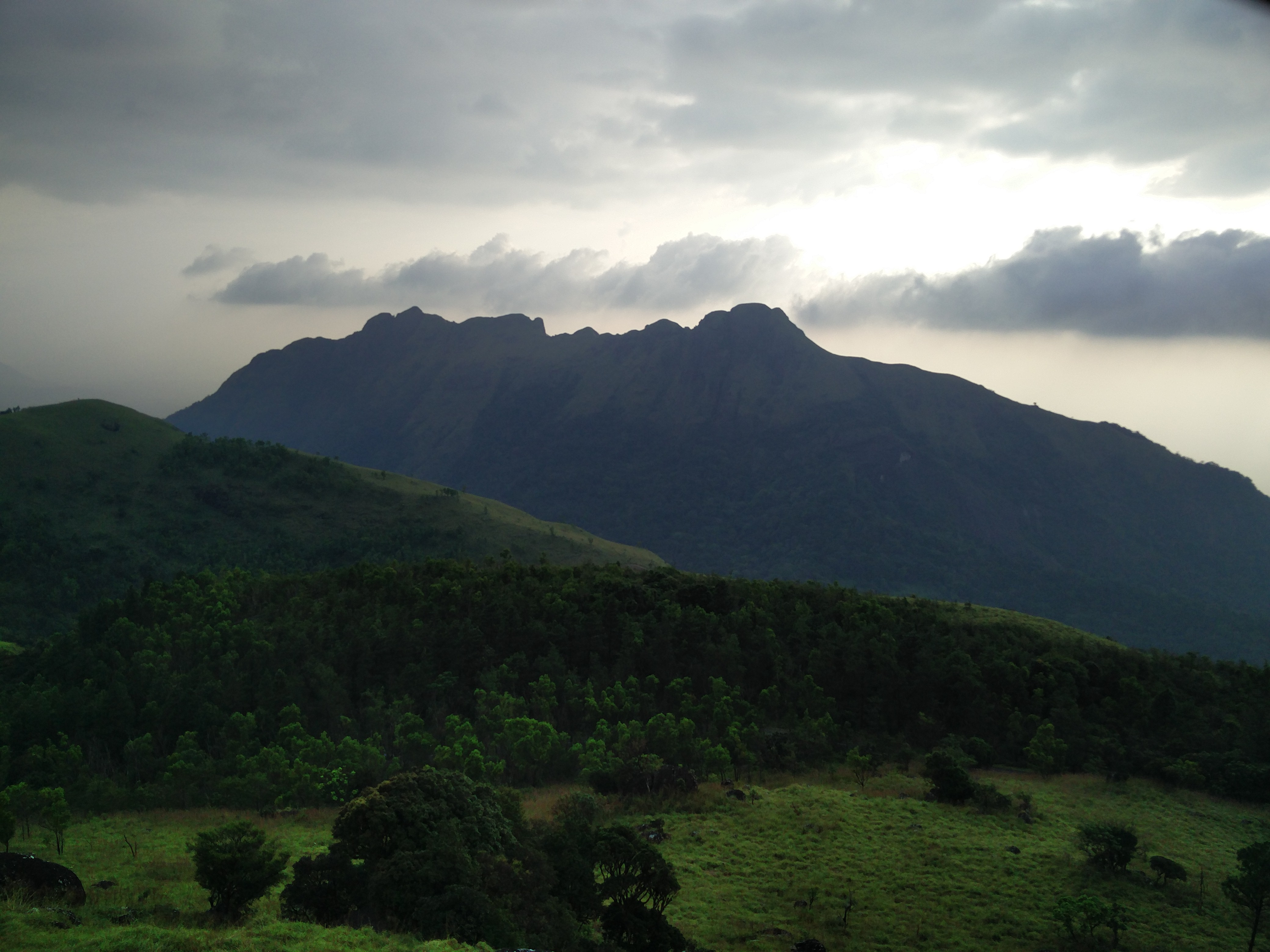 View of ponmudi hills in the evening